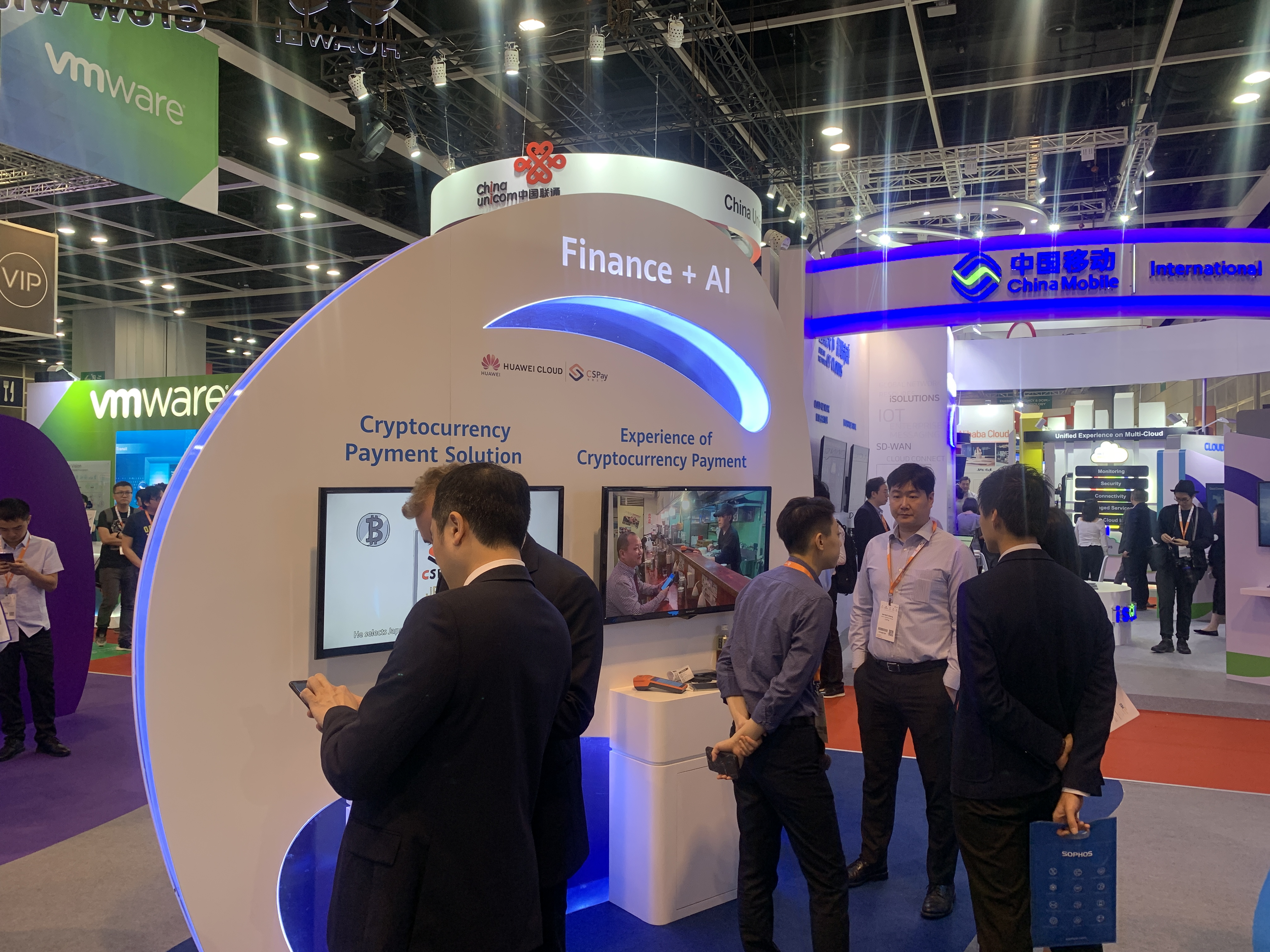 Huawei expo hk Cspay